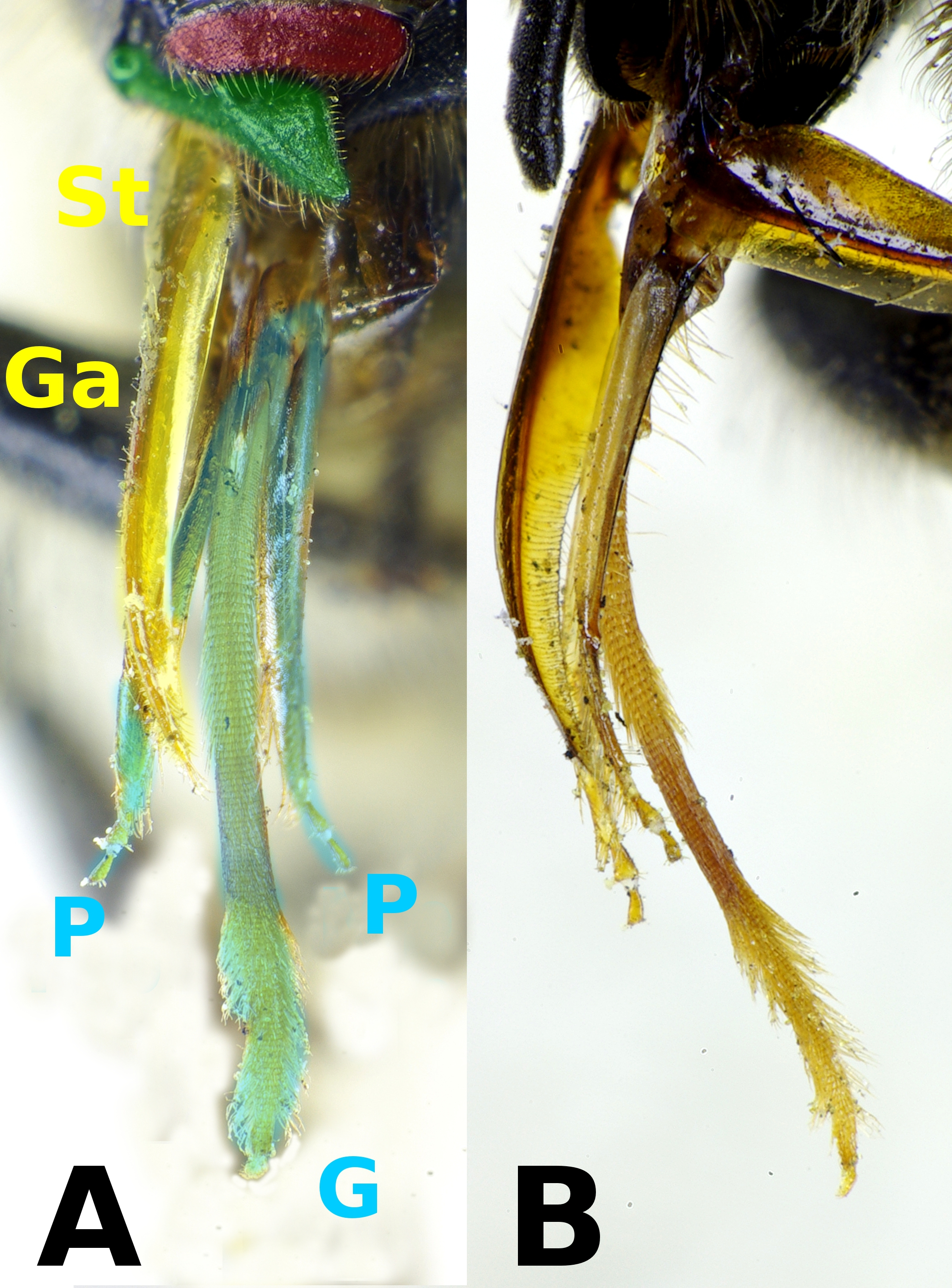 Apis mellifera, detail of mouthparts, in picture right maxilla folded down A: upside B: lateral A partly coulourd: red: labrum green: mandibel yellow: maxilla Ga:galea St Stipes (small maxillar palpus recognizable) blue: labium G:glossa P:labial palps